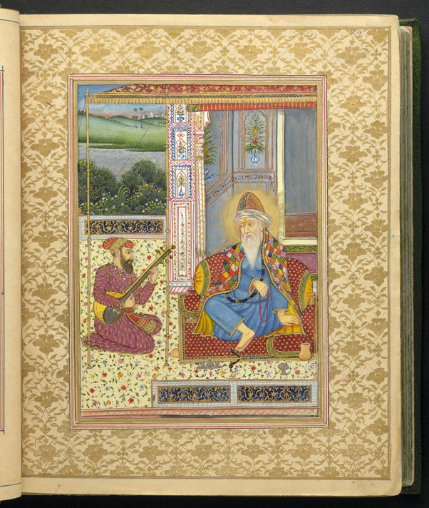 Medium: Ink and pigments on paper Date: 1840 ZoomifyInteractive zoomable image (needs Flash) Print imageFull size printable image This miniature portrait of Guru Nanak comes from the 'Sarvasiddhantattvacudamani' - 'The Crest-Jewel of the Essence of all Systems of Astronomy' - written by Durgashankar Pathak in Varanasi. The manuscript was commissioned around 1840 by a Sikh nobleman called Lehna Singh Majithia, whose horoscope is included in the manuscript. Find out more about this manuscript and other sacred texts in Expressions of Faith.